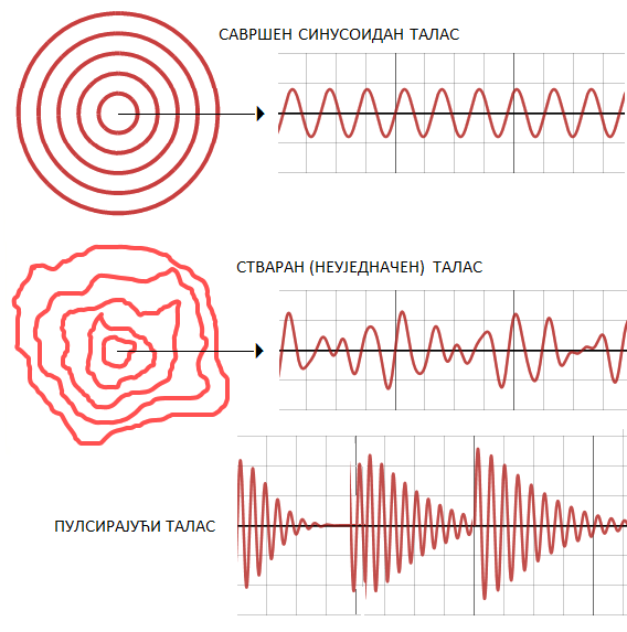 ЕМ ТАЛАСИ